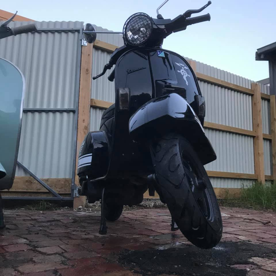 Vespa PX200